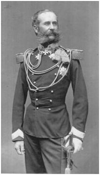 Ludwig Karl Wilhelm von Gablenz. died 1874